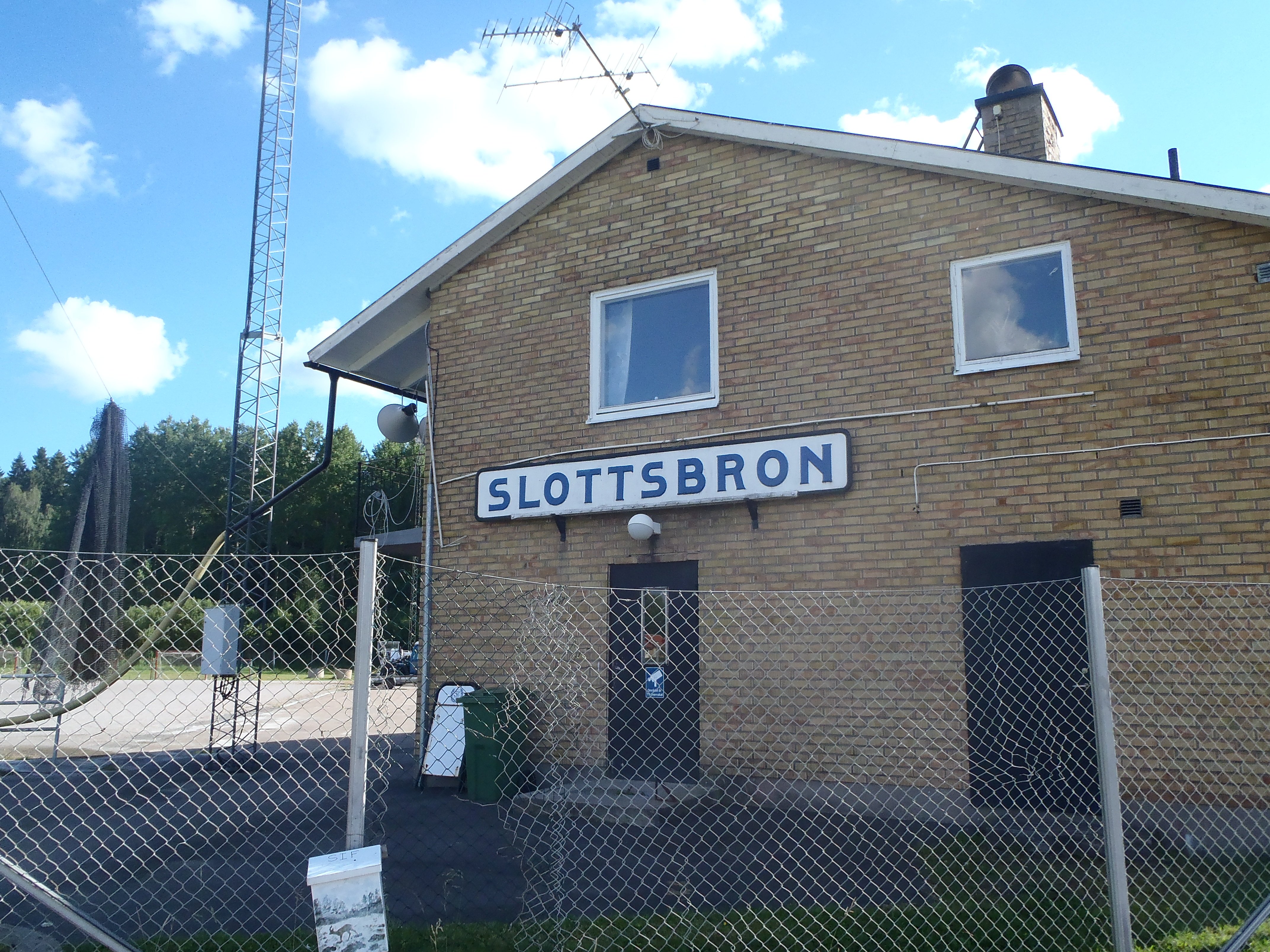 Strandvallen, home for Slottsbrons IF